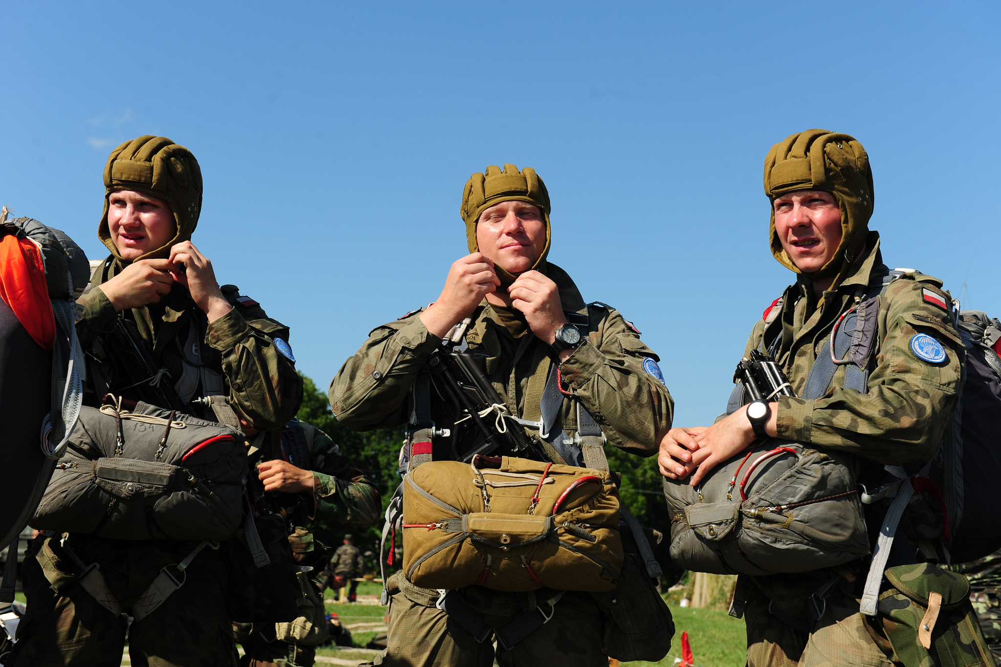 Polish paratroopers strap on their helmets during exercise Rapid Trident 2013 in Yavoriv, Ukraine, July 9, 2013. Rapid Trident is a U.S. Army-Europe led multinational field training and command post exercise designed to enhance interoperability between forces and promote regional stability and security.